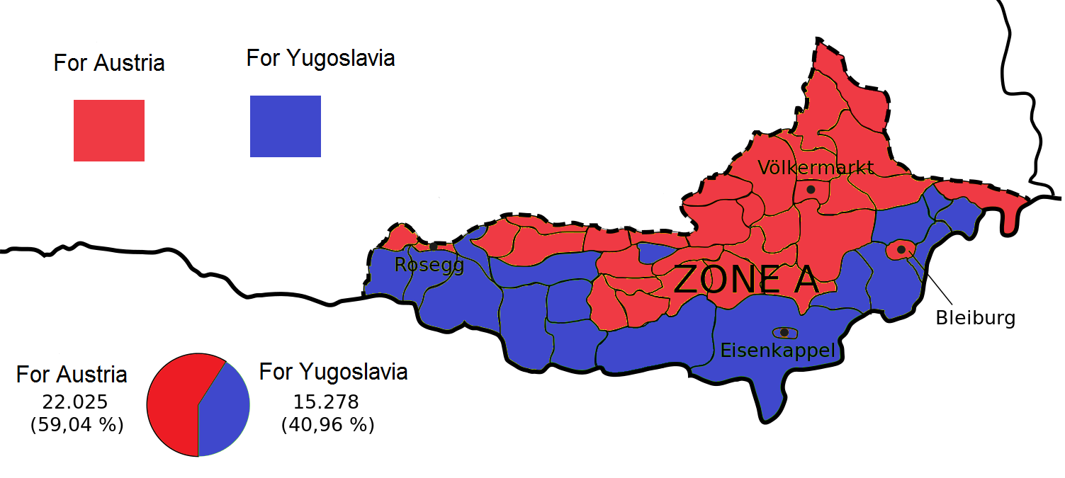 Carinthian referendum results by municipality, 1920